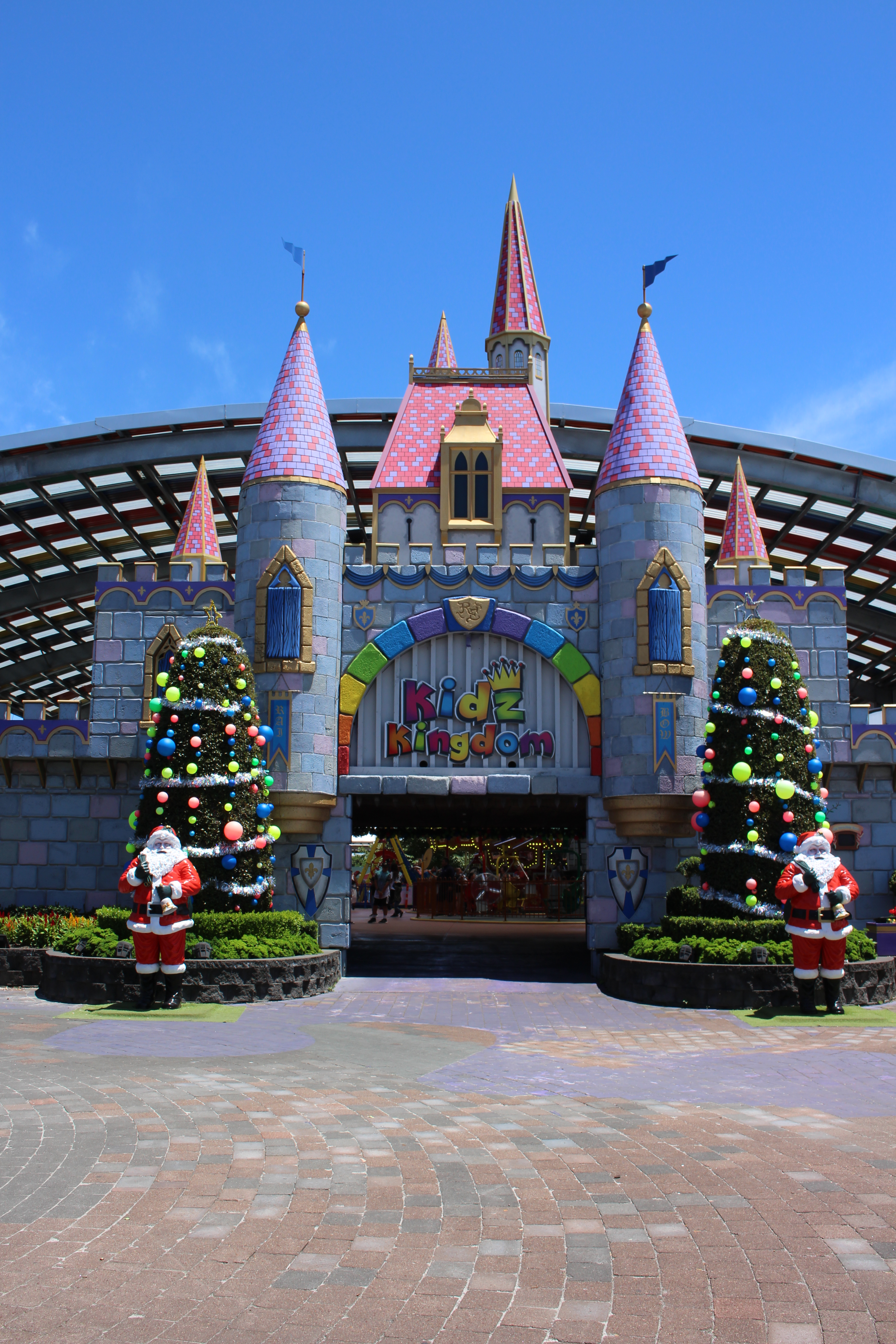 Rainbow's End Kidz Kingdom - Parkside